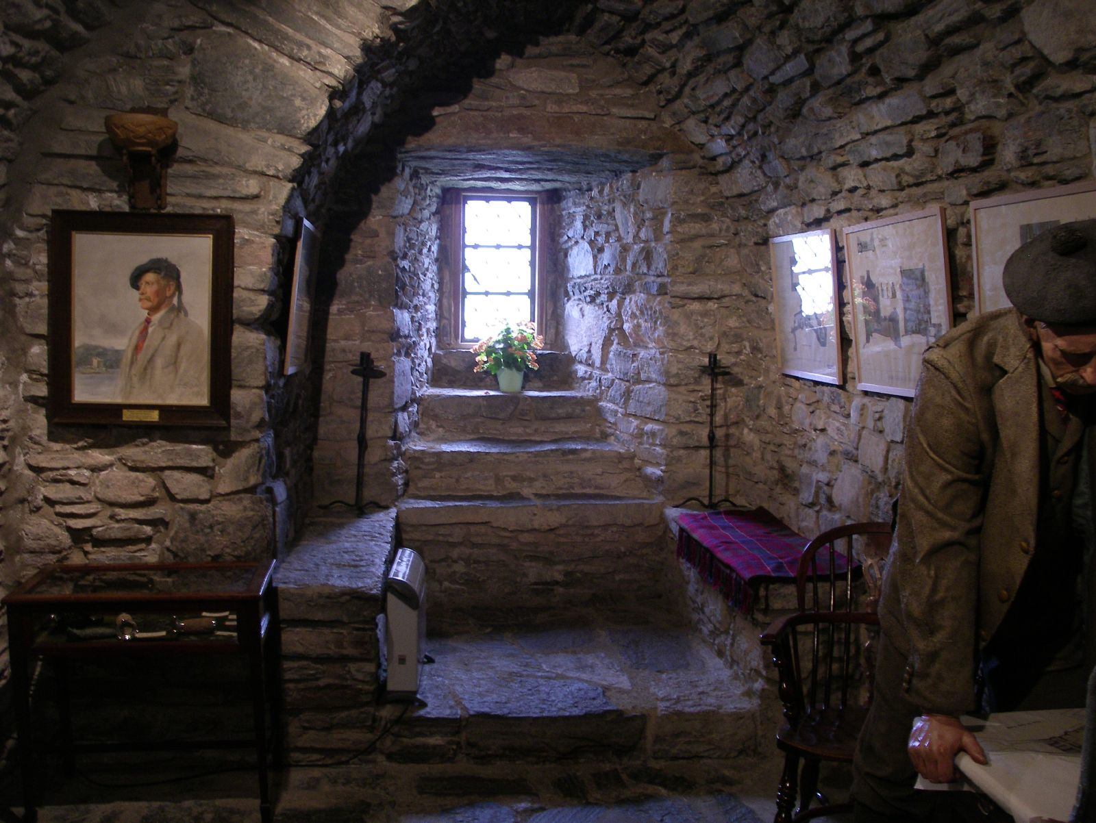 Inside Eilean Donan Castle 04